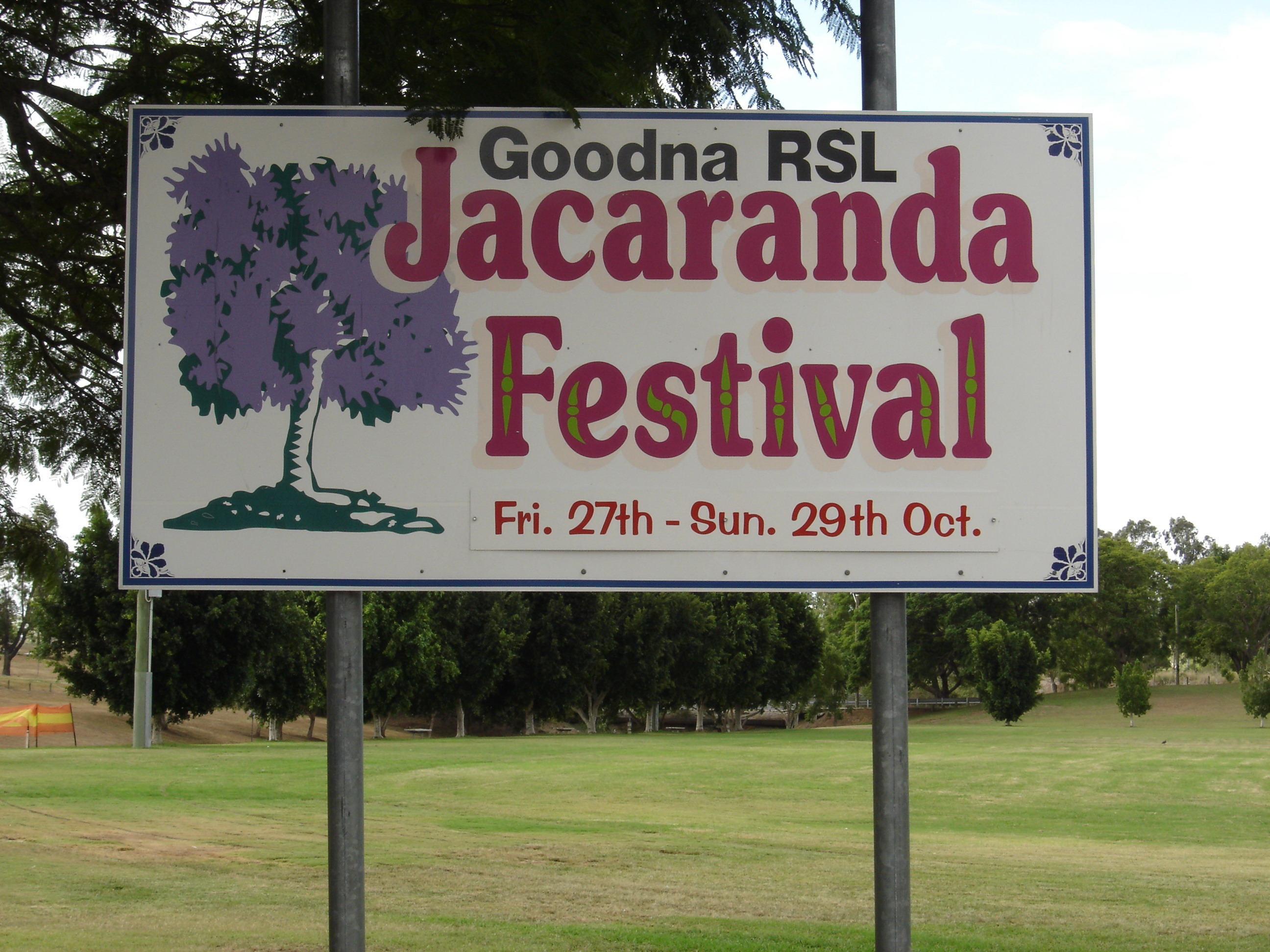 Goodna Jacaranda Festival Sign. Author -"Goodstone".